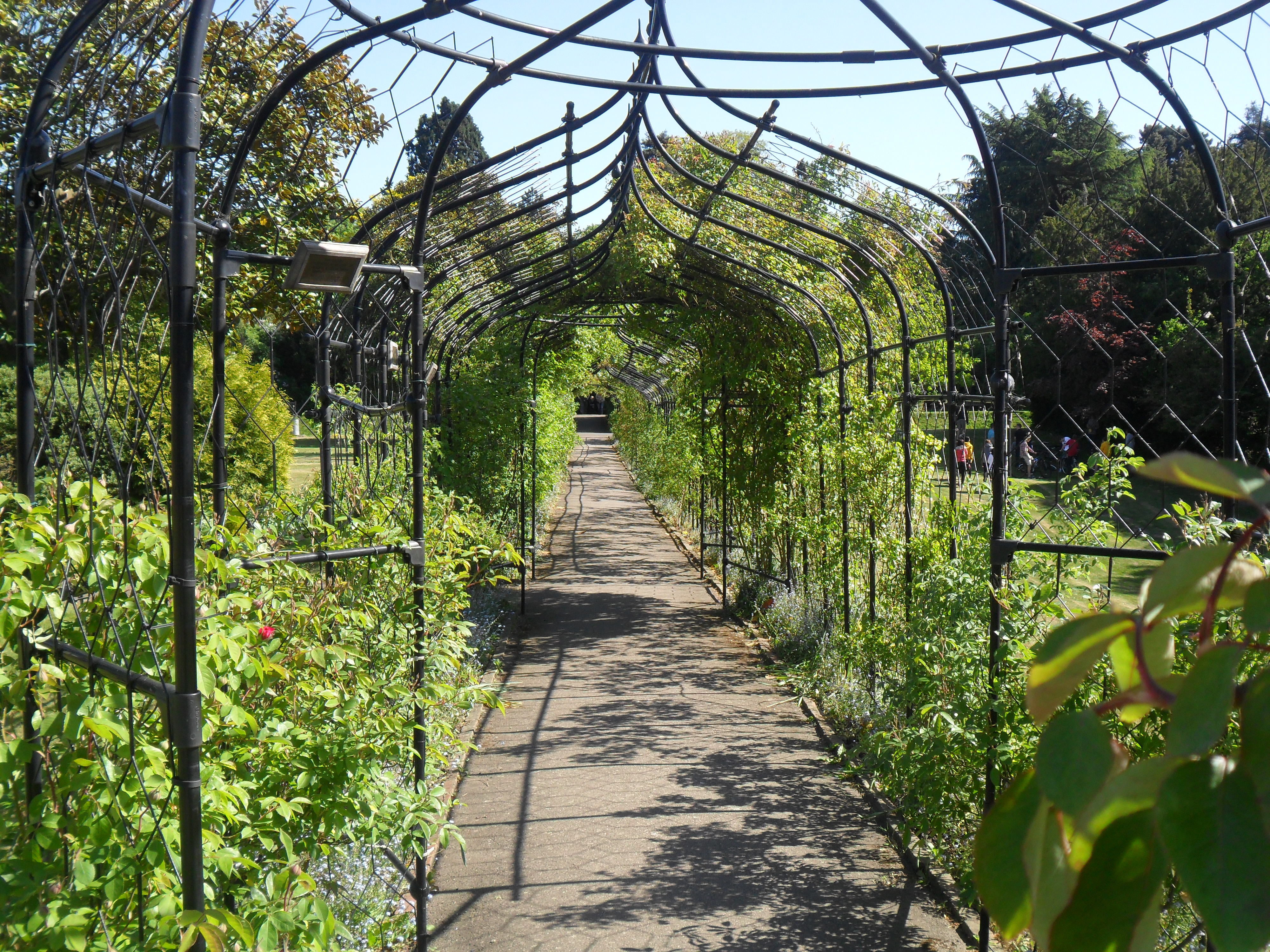 Nonsuch Park is in Surrey. It contains a mansion and this flower garden inter alia.